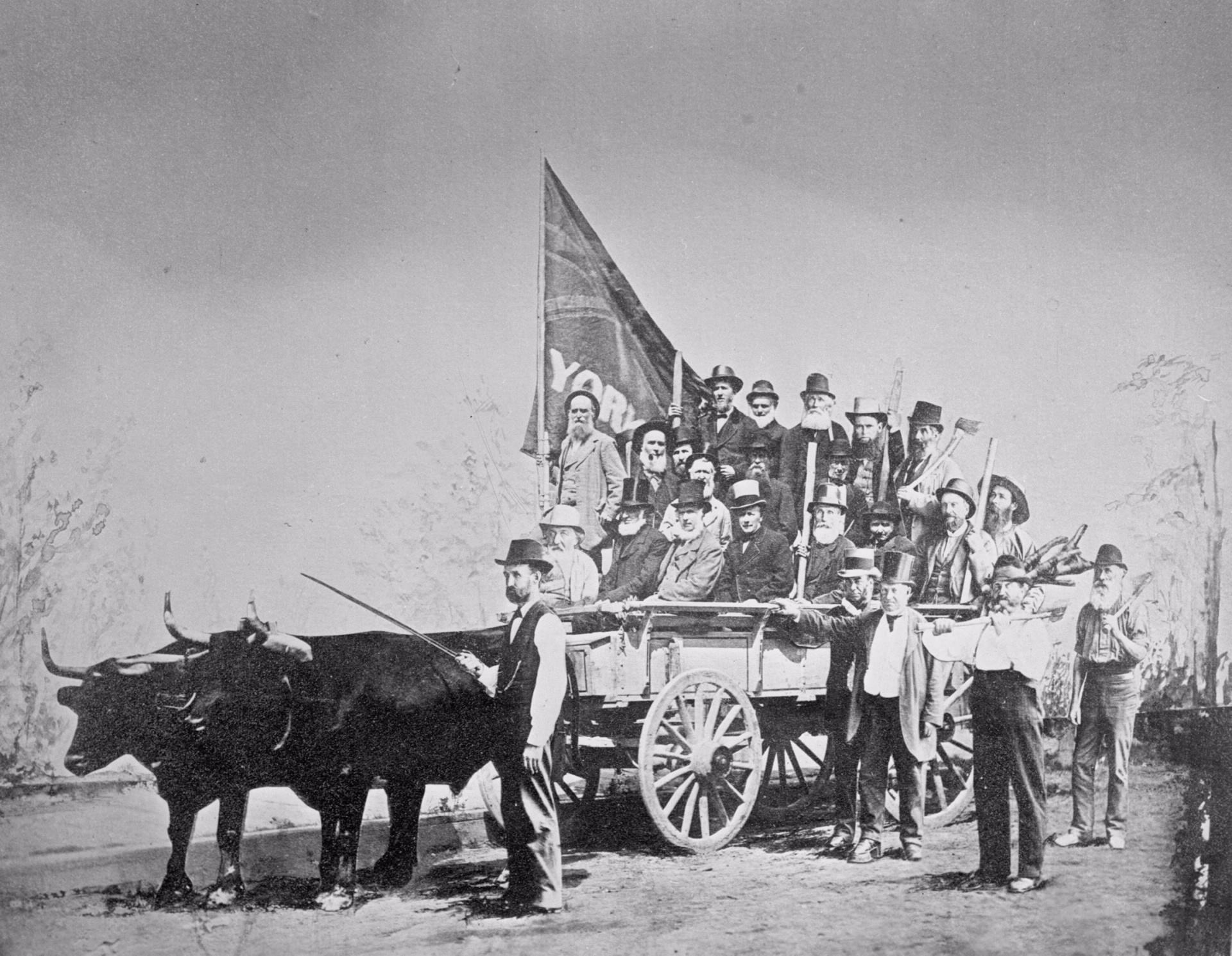 York Pioneers, on way to Exhibition to erect Scadding cabin